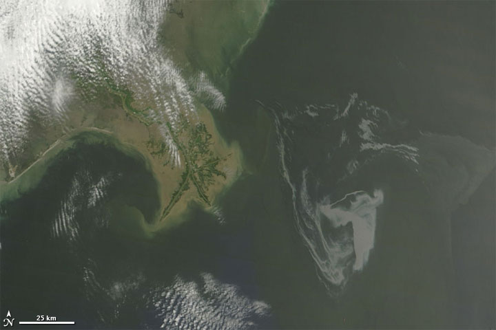 Cropped from File:NASA_Satellite_Imagery_Keeping_Eye_on_the_Gulf_Oil_Spill.jpg by NASA.